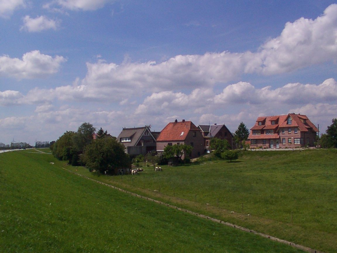 Farmhouses at the old dike at Hamburg-Altengamme, Germany